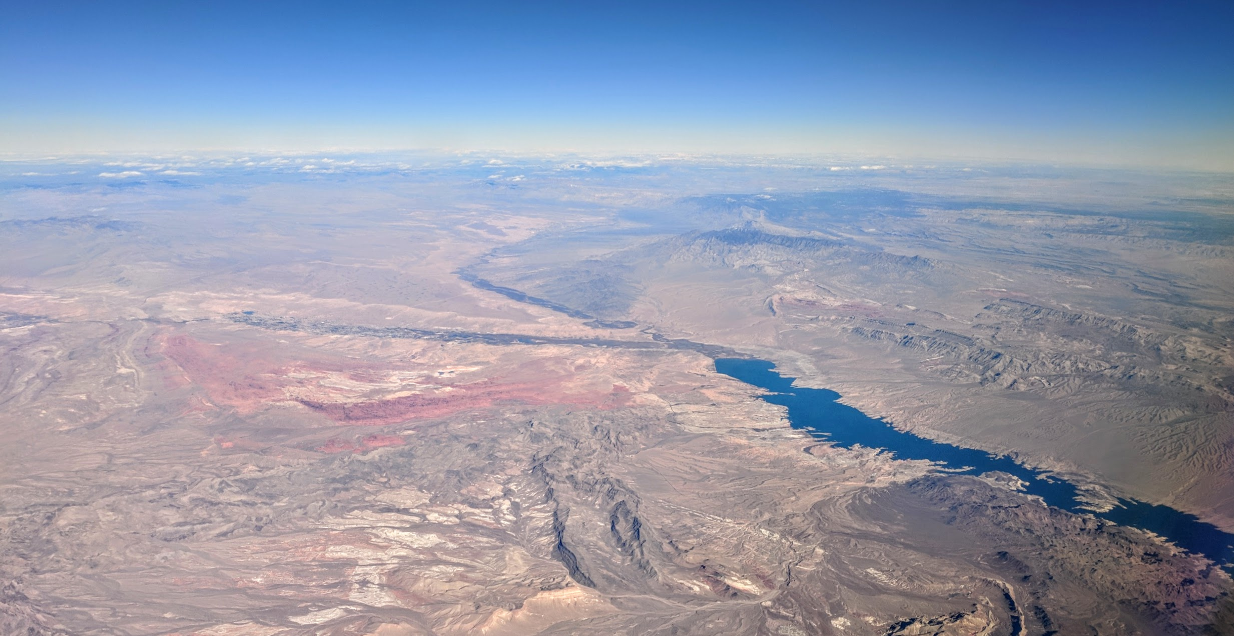 The north end of Lake Mead National Recreation Area (right) and Nevada's Valley of Fire State Park (the red area), viewed from an SFO–ABQ flight